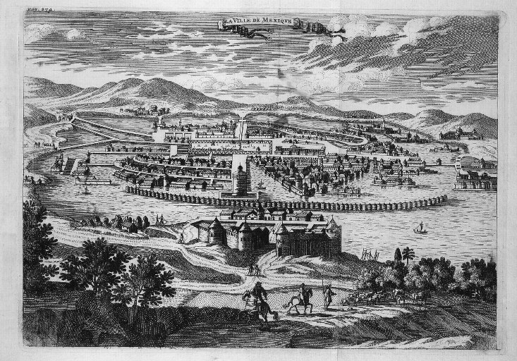 Tenochtitlan-Mexico - Copper-plate engraving from Van Beecq